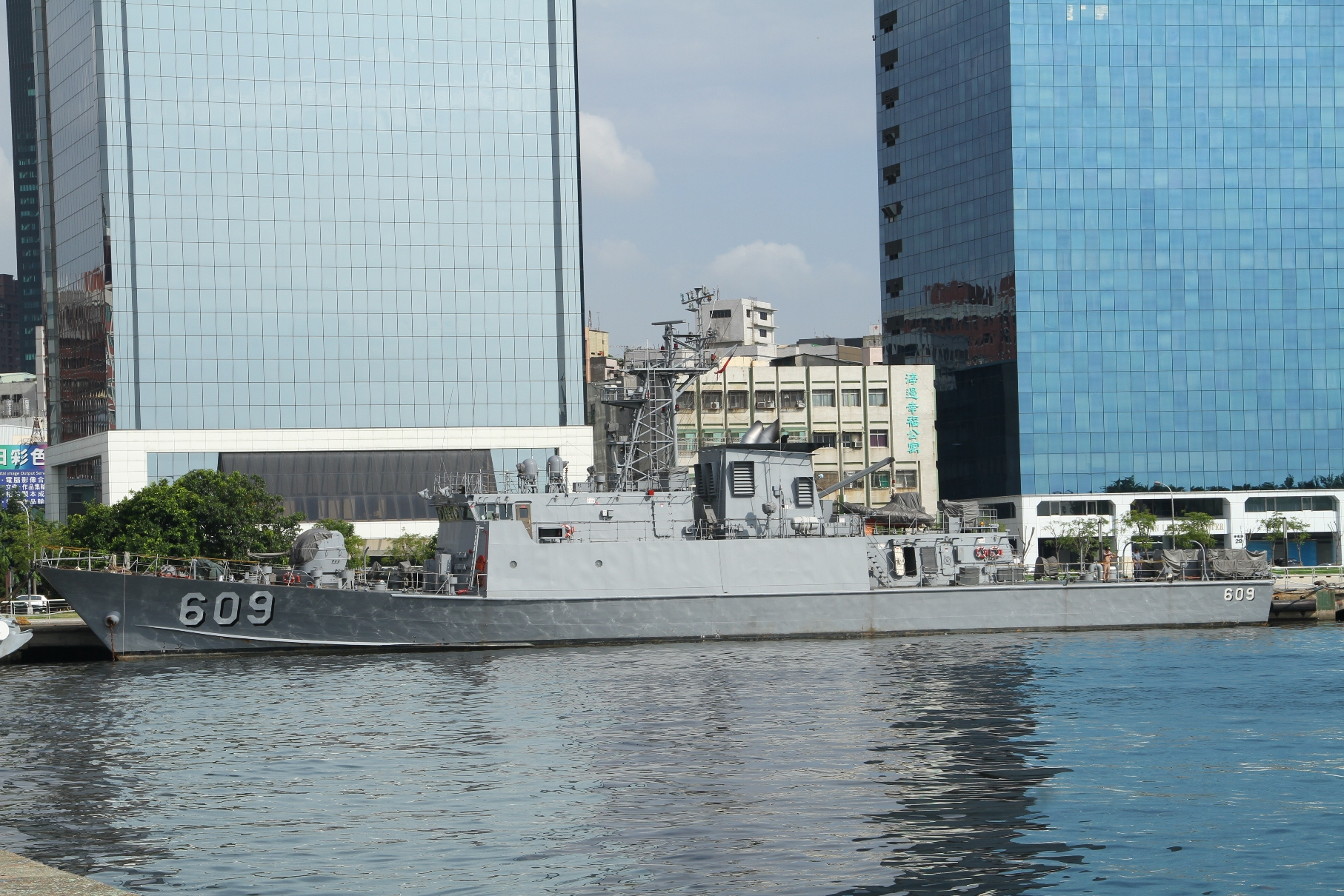 PGG-609 in Port of Kaohsiung.